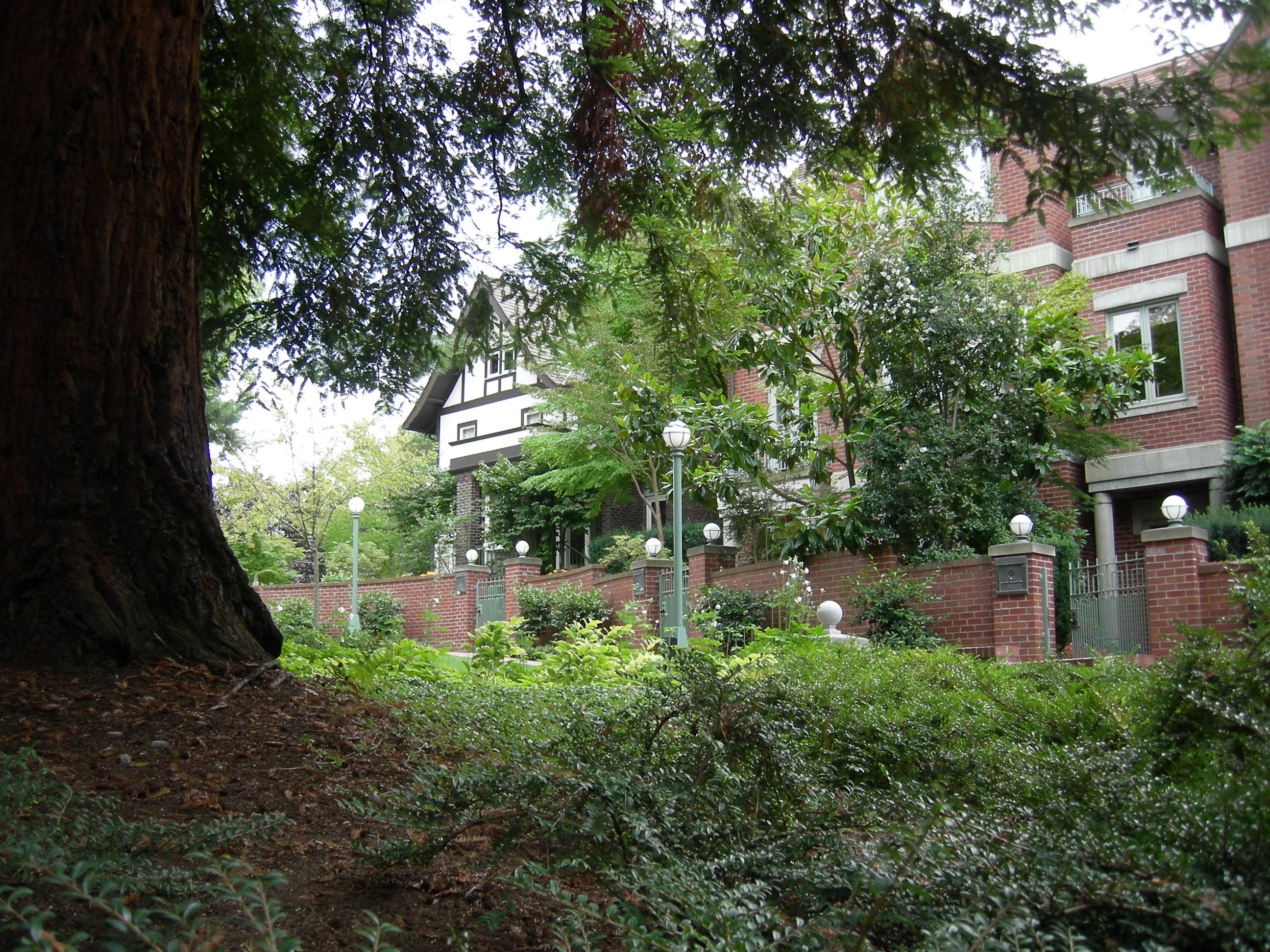 The Merrill Court Town Houses (built 1981-86) in the Harvard Belmont Landmark District, Capitol Hill, Seattle, Washington were designed by modern architect and preservationist Ibsen Nelsen and were specifically designed to fit this historic neighborhood of grand old houses one of which can be seen at left, and was already on the property.